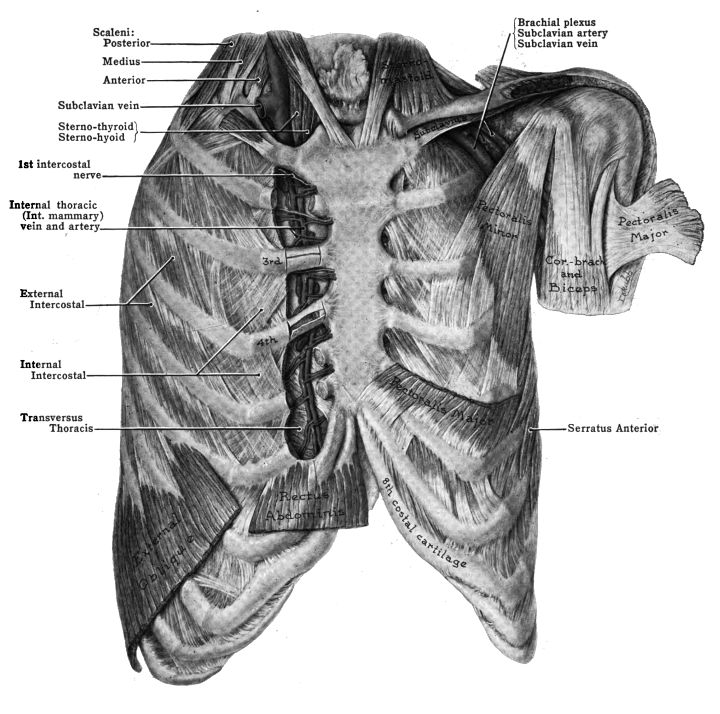 406 Anterior Wall of the Thorax Observe: 1. The muscles to be removed before dissection is begun: External Oblique, Rectus Abdominis, Pectoralis Major, Pectoralis Minor, Subclavius, sternal head of Sternomastoid, and Scalenus Posterior at the front; Scrratus Anterior and Latissimus Dorsi at the sides (figs. 23 & 24); Serrati Posteriores, Longissimus, and Ilio-costalis at the back (fig. 409). 2. Pulling the arm backwards and downwards forces the clavicle, padded with Subclavius, to compress the subclavian vessels against the 1st rib and thus arrest the blood flow. 3. The 11th and 12th ribs are too short to be seen from the front. 4. The 7th costal cartilages are usually the last to reach the sternum, although not uncom- monly, as here, the 8th also do so. 5. The H-shaped cut made through the perichondrium of the 3rd and 4th cartilages prior to shelling out segments of cartilage. 6. The internal thoracic vessels, crossed anteriorly by the intercostal nerves and associated with parasternal lymph nodes.